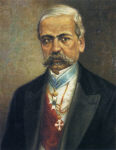 Former Prime Minister of Greece Thrasyvoulos Zaimis (1822–1880).